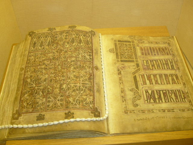 Lichfield Cathedral The Chad Gospels - an early 8th Century manuscript kept at Lichfield Cathedral